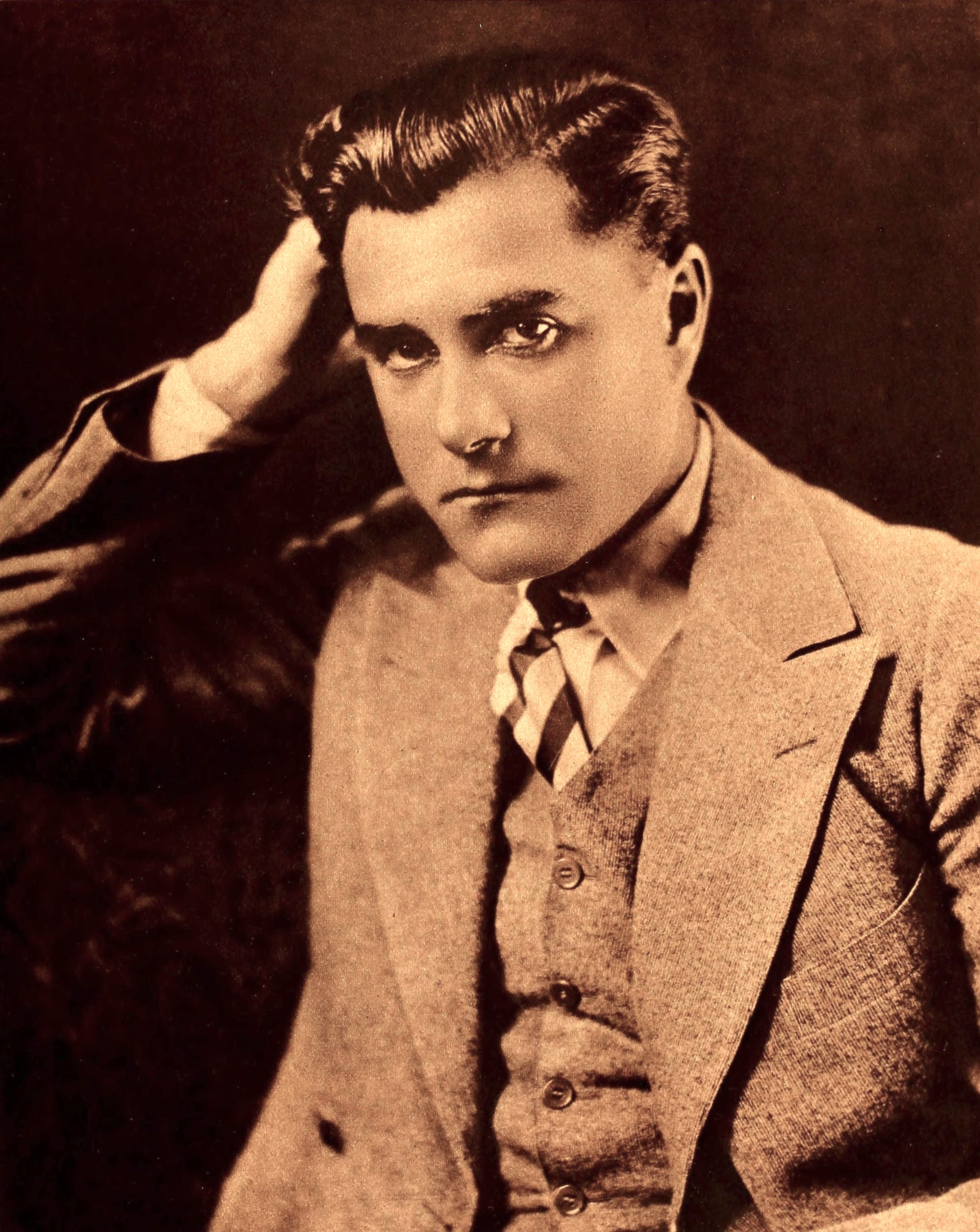 Motion Picture, May 1921